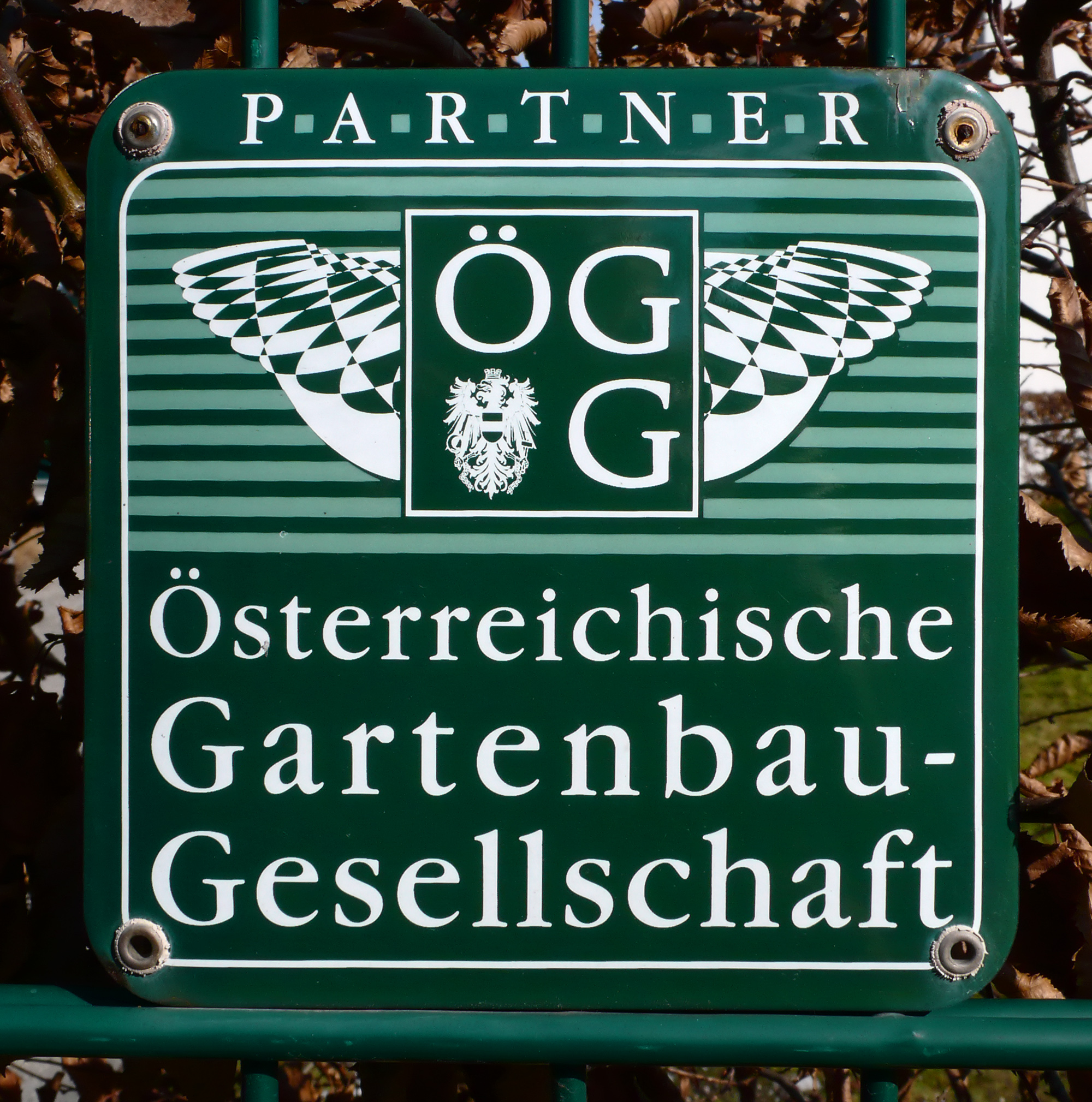 Placard of the Österreichische Gartenbaugesellschaft